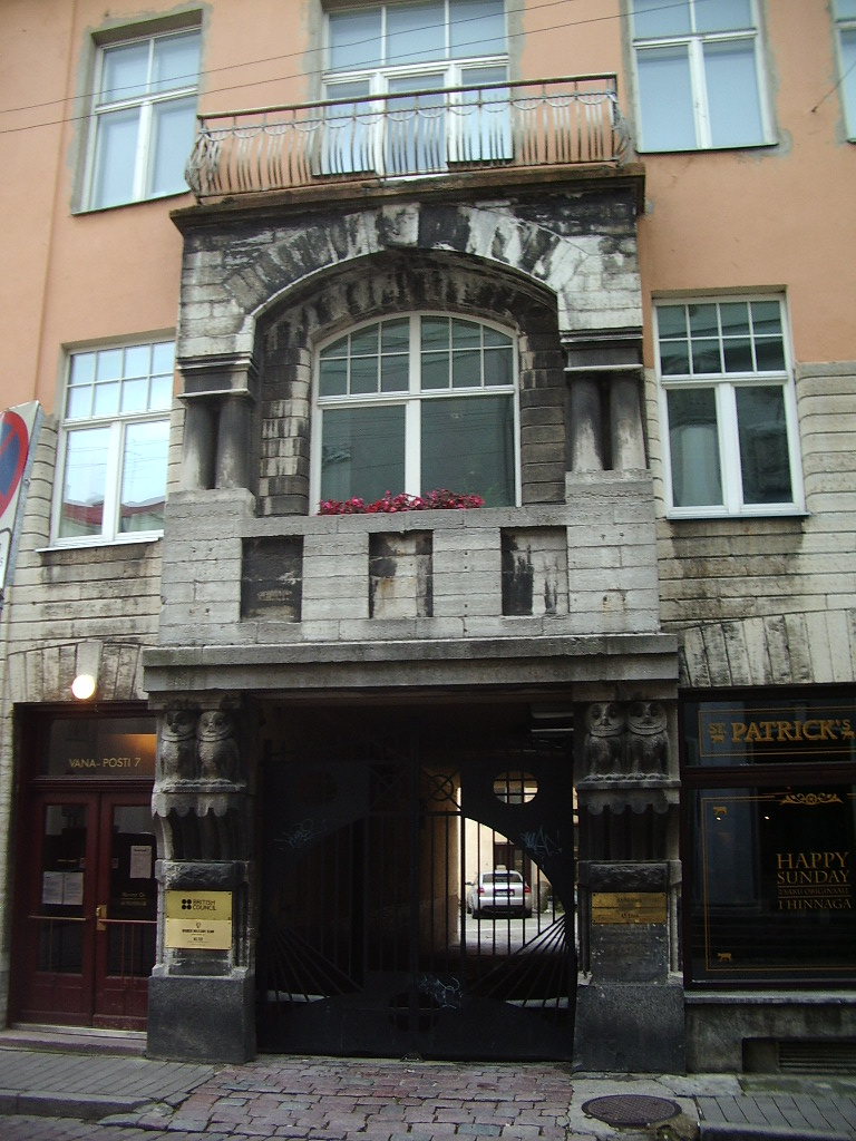 Vana-Posti 7, Tallinn old town British Council Estonia